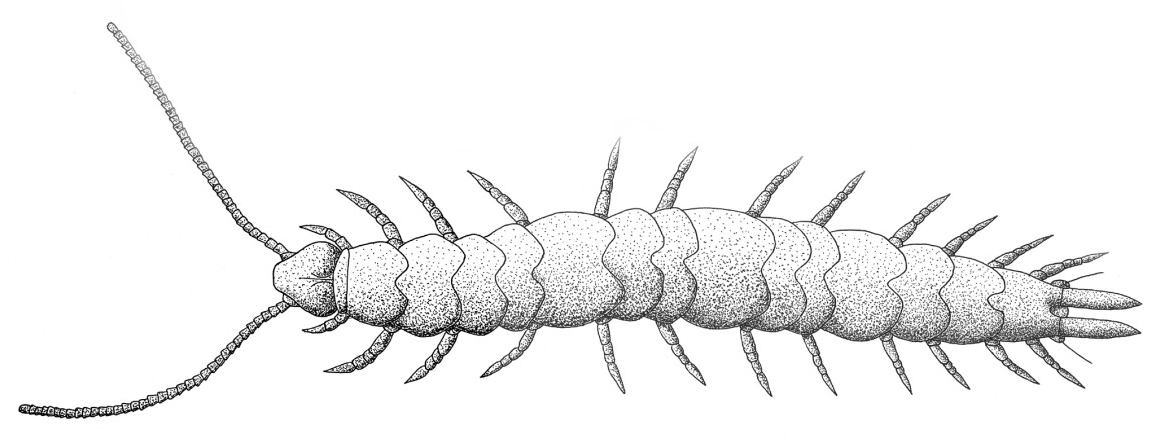 drawing of a male of Scutigerella immaculata (Myriapoda: Symphyla: Scutigerellidae)